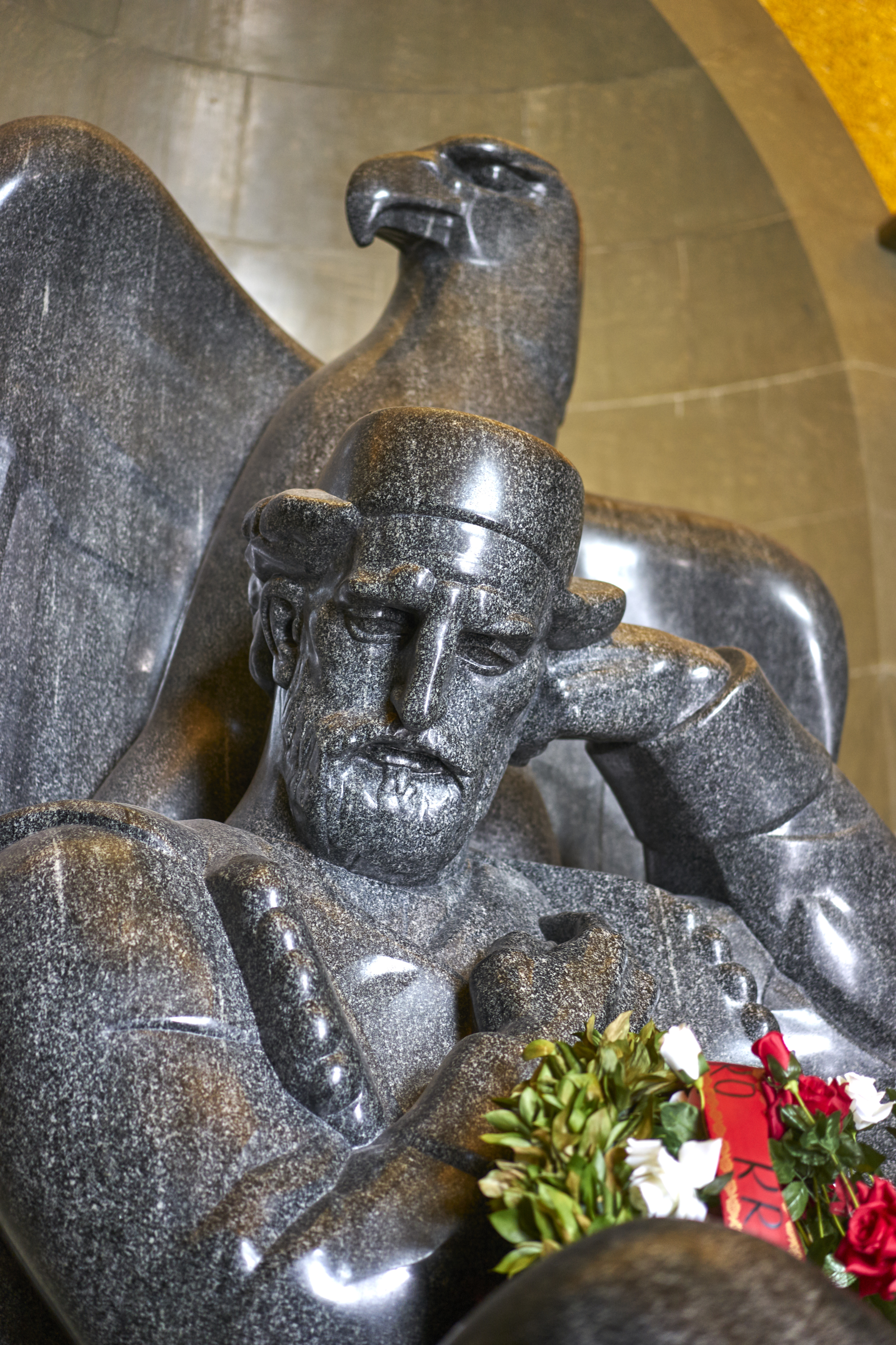 Statue in Petar Petrović Njegoš's mausoleum in the Lovćen national park, Montenegro.